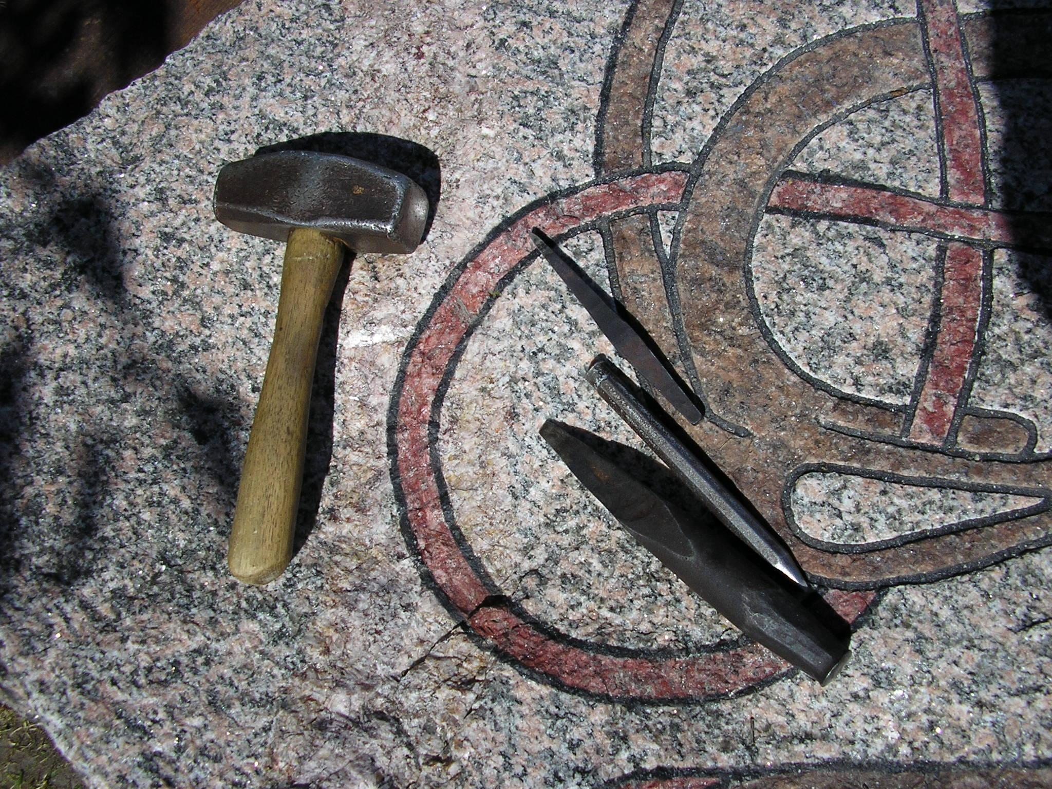 The tools used to make a runestone.